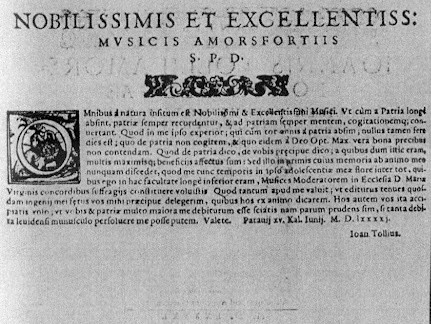 Dedication of Jan Tollius's first book of motets (Venice, 1591).